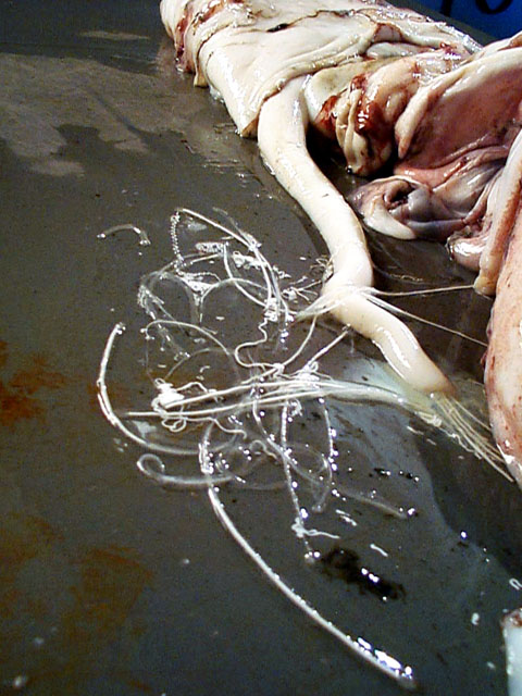 Photo from In Search of Giant Squid - 1999 Expedition Journals, Smithsonian Institution.